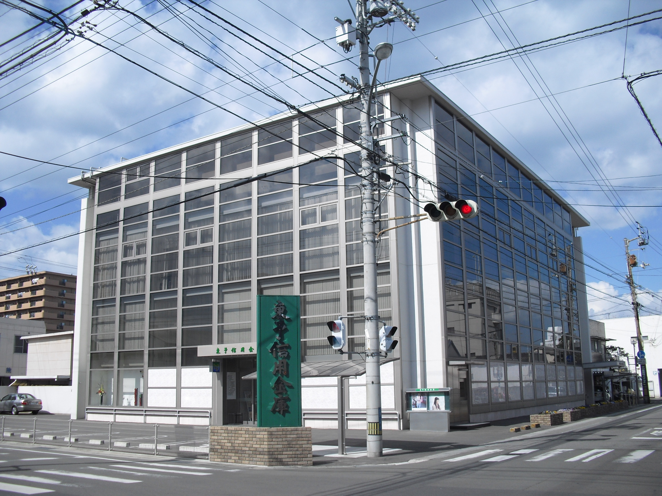 Toyo_shinkin_bank